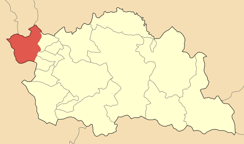 Locator map of Samarinas community (Κοινότητα Σαμαρίνας) at Grevena perfecture, Greece.